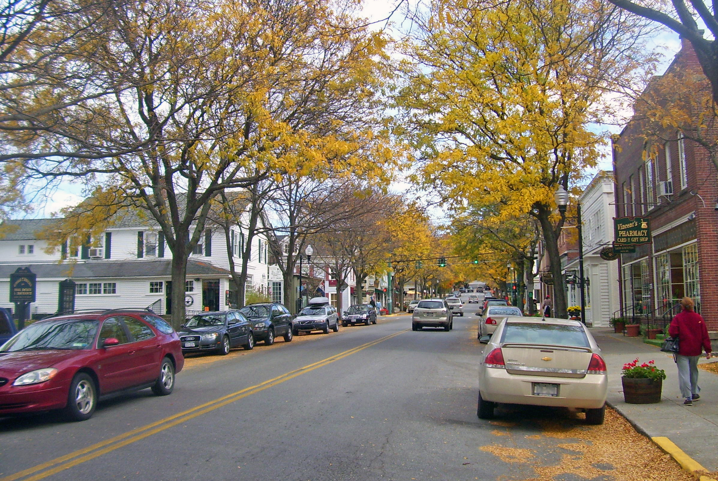 View east down Franklin Avenue in Millbrook, NY, USA. License plate number on vehicle obscured to preserve owner's privacy